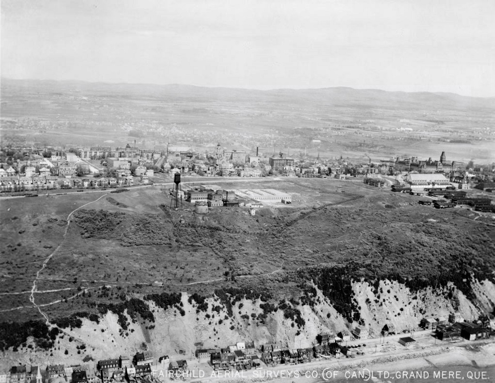 The Ross-rifle factory, in the heart of Cove Fields, Quebec City, in 1925. Ross Rifle Factory - 1902-1931 « In 1902, Scottish industrialist Charles Ross built a factory on the Plains of Abraham where the water reservoir now stands, close to Martello Tower 1. Thousands of rifles, used to equip Canadian Army soldiers until the beginning of World War I, were produced there. The Ross Rifle was retired from service in 1916. Although said to be very accurate, it was known to jam occasionally and discharge in the shooter’s face. The Ross Company was expropriated by the federal government in 1917 and ceased its activities. An unsuccessful attempt was made to retool after the closing of the factory on the Plains. The National Battlefields Commission obtained the land of the Ministry of Defence and the Ross Rifle Company (Cove Fields) in 1928, but had to wait until the Army relocated elsewhere before demolishing the buildings. They were being used for military stores even in the 1930s, but were destroyed to make room for the Quebec City water reservoir in 1931. »